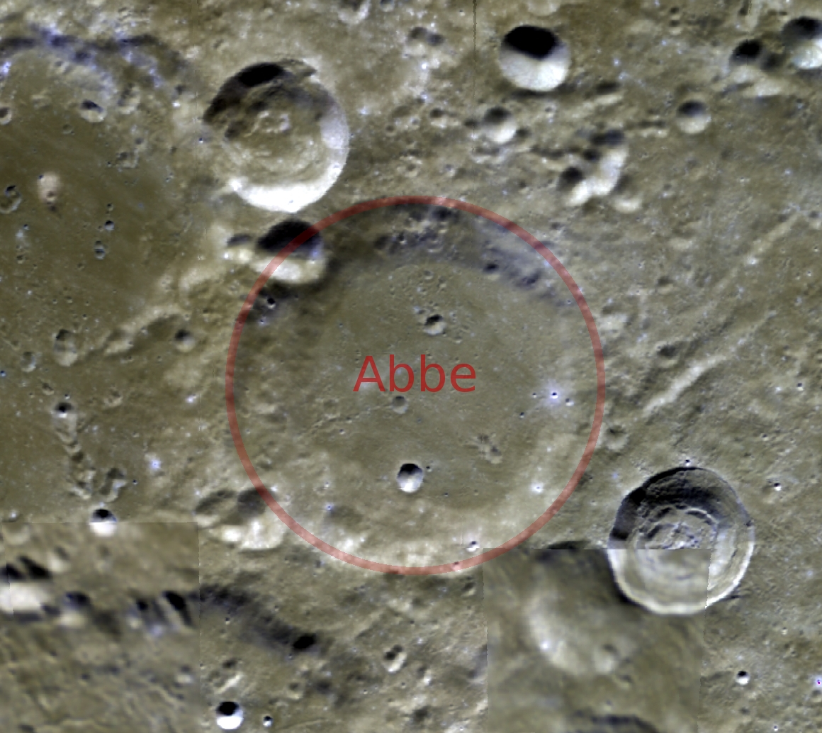 Abbe crater in the southern region of the Moon. Cropped and annotated version (by uploader) of computer generated image by PDS MAP-A-PLANET.